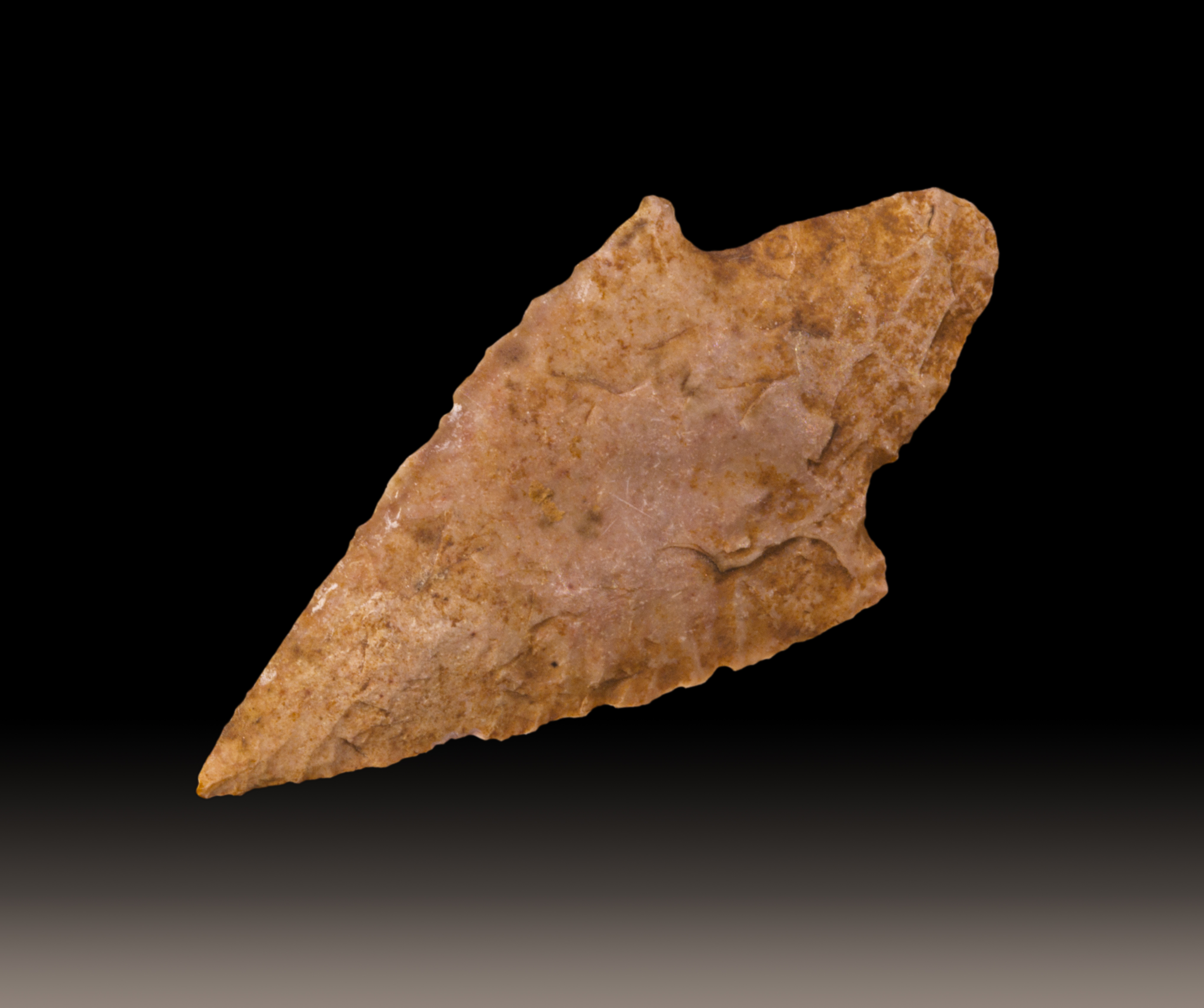 Arrowhead in Chert Stage : Later Neolithic (Rhodézien) (to – 3300 to - 2400 Before the Current Era) Locality : Dolmen de la Glène, Saint-Léons, Aveyron, France Former collection of Émile Cartailhac (1845 - 1921) Muséum of Toulouse MHNT.PRE.2009.0.232.2 Size : 50x20x5 mm